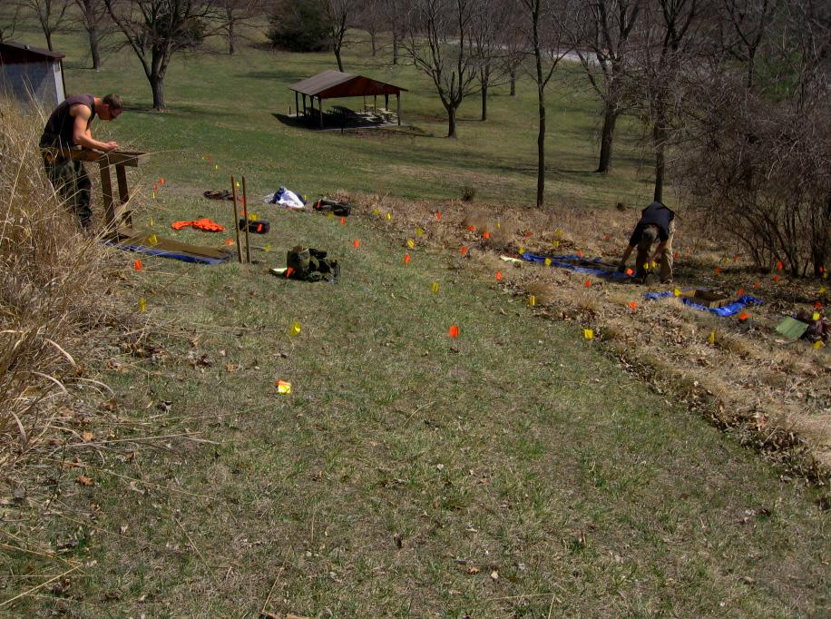 Archaeological excavation of the Davis Oriole Earthlodge Site, located in Pony Creek Park, Mills County, Iowa.